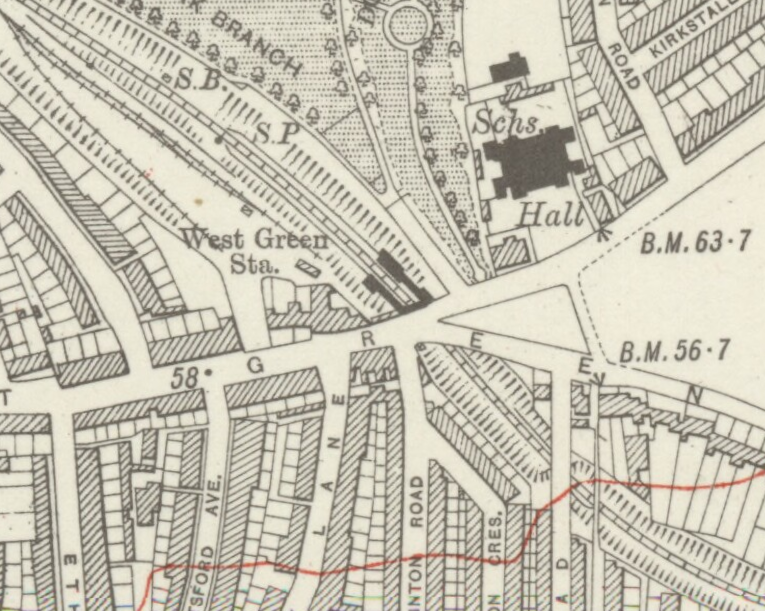 West Green station in north London on a 1920 Ordnance Survey map.